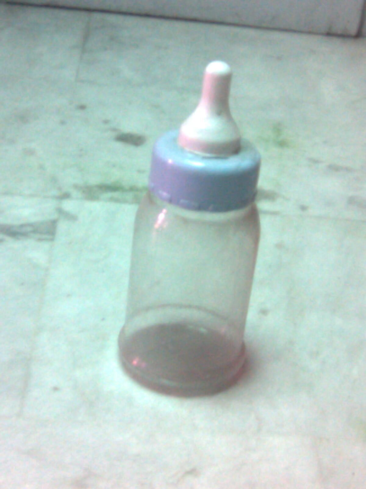 Jumbo Feeding Bottle (a giant sized bottle)